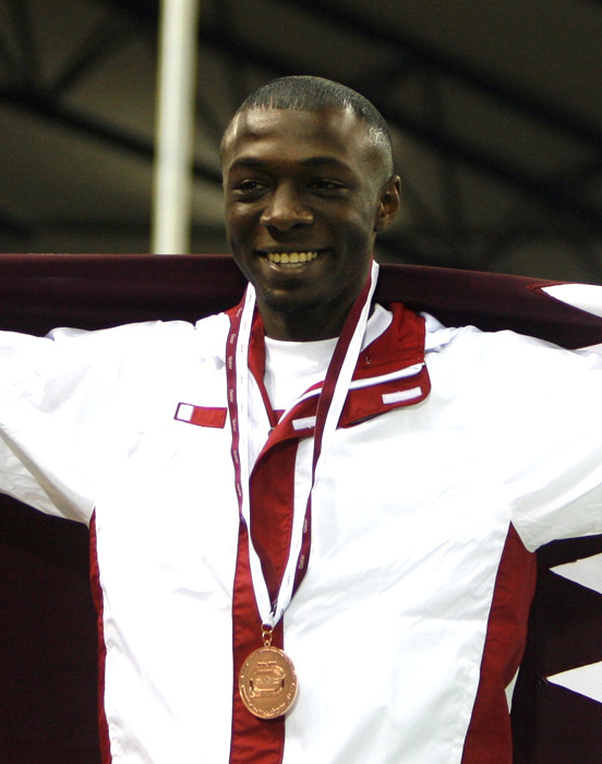 Qatari high jumper Rashed Ahmed Al Mannai is all smiles on the podium. Pic by Doha Stadium Plus